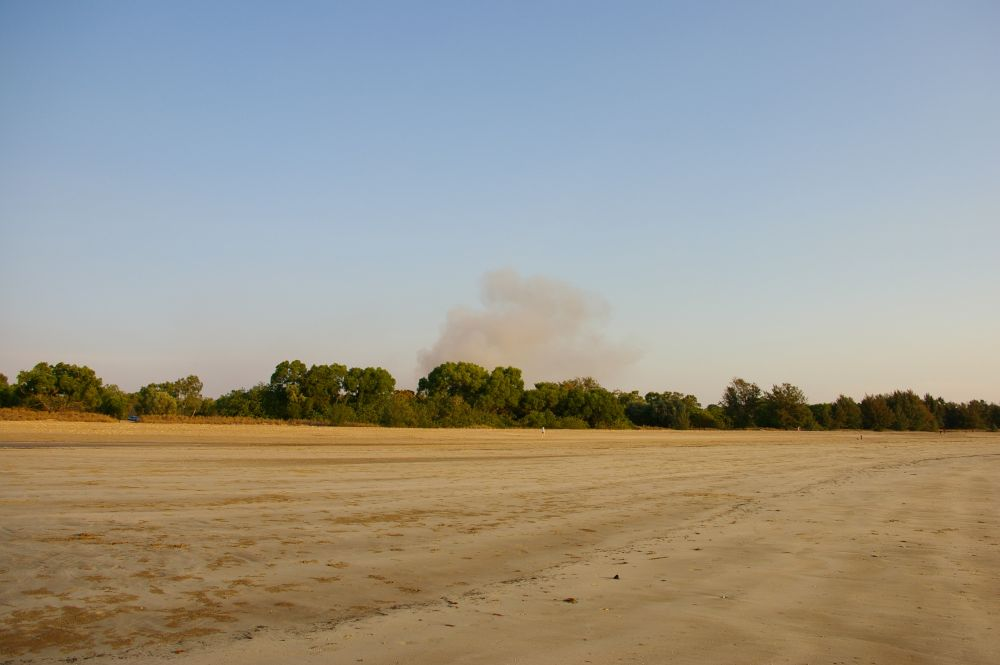 A beach at Lee Point